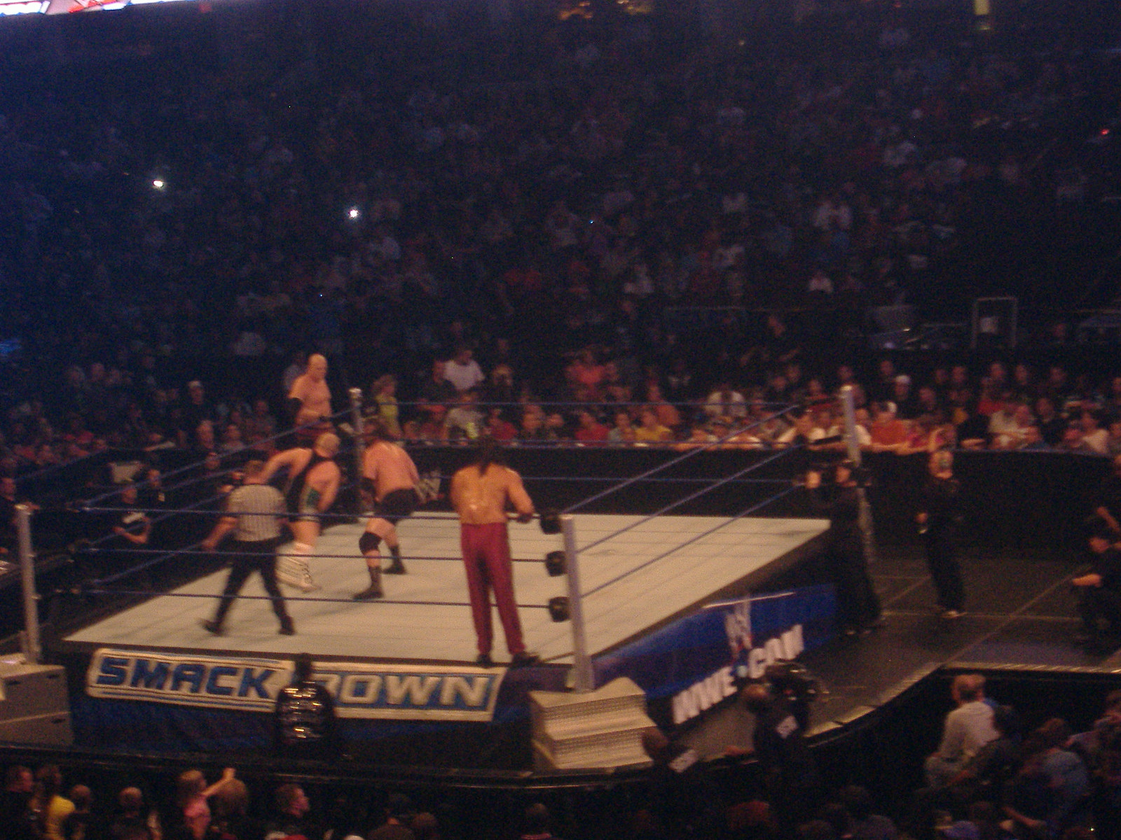 Finlay and Great Khali vs Kane and Mike Knox From September 1st, 2009 Smackdown, ECW, and Superstars